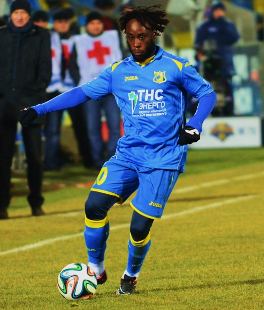 Réginal Goreux